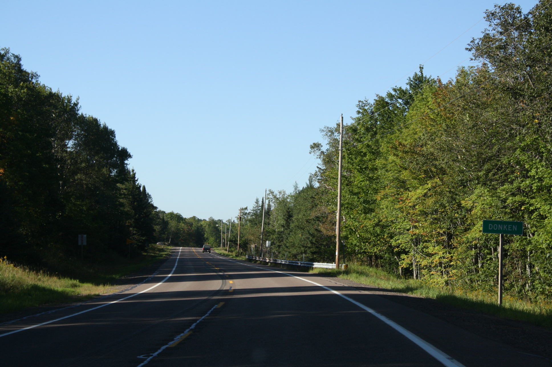 Looking south at the sign for Donken, Michigan on M-26 (Michigan highway).